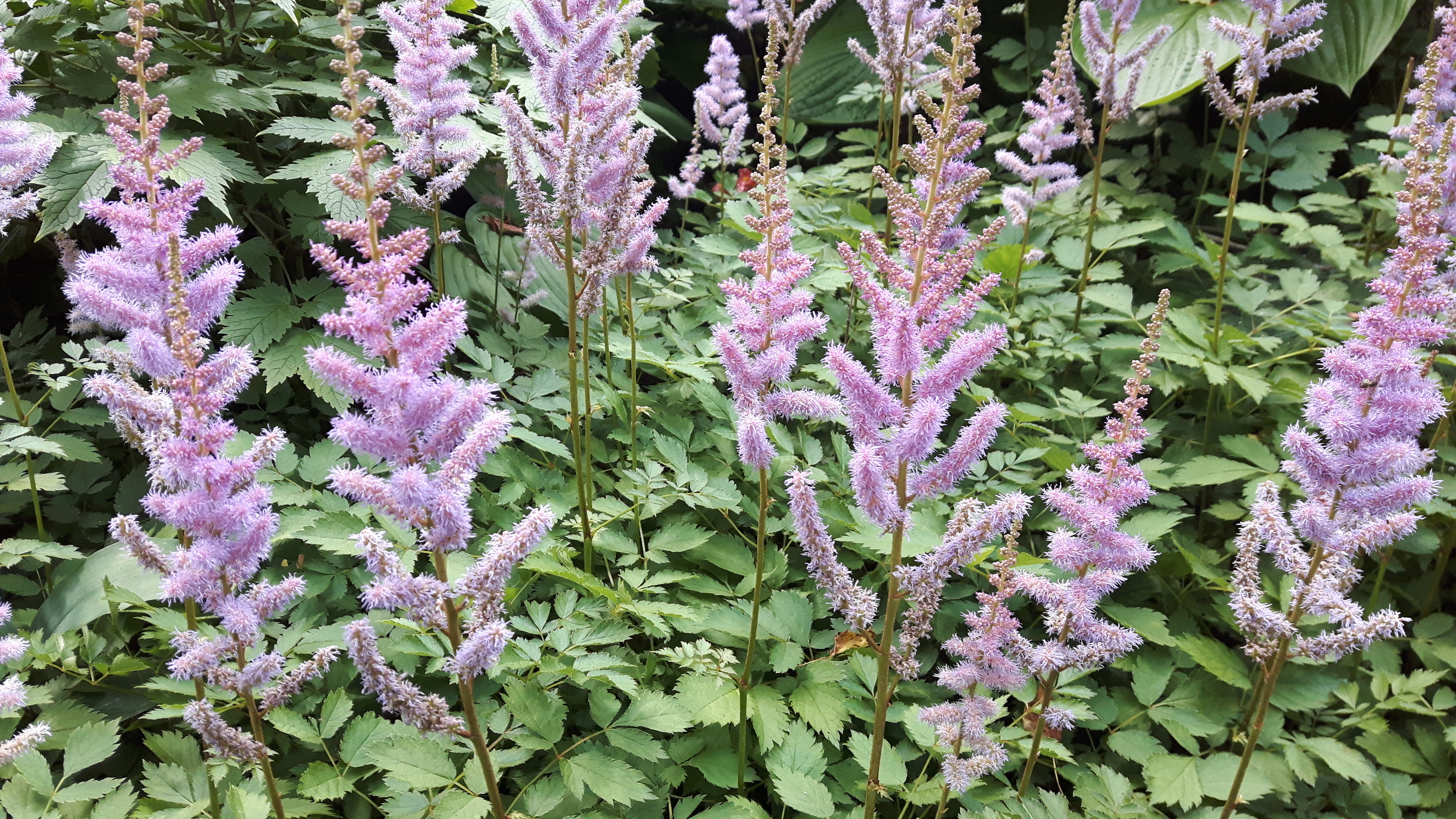 Astilbe chinensis, Montreal Botanical Garden.